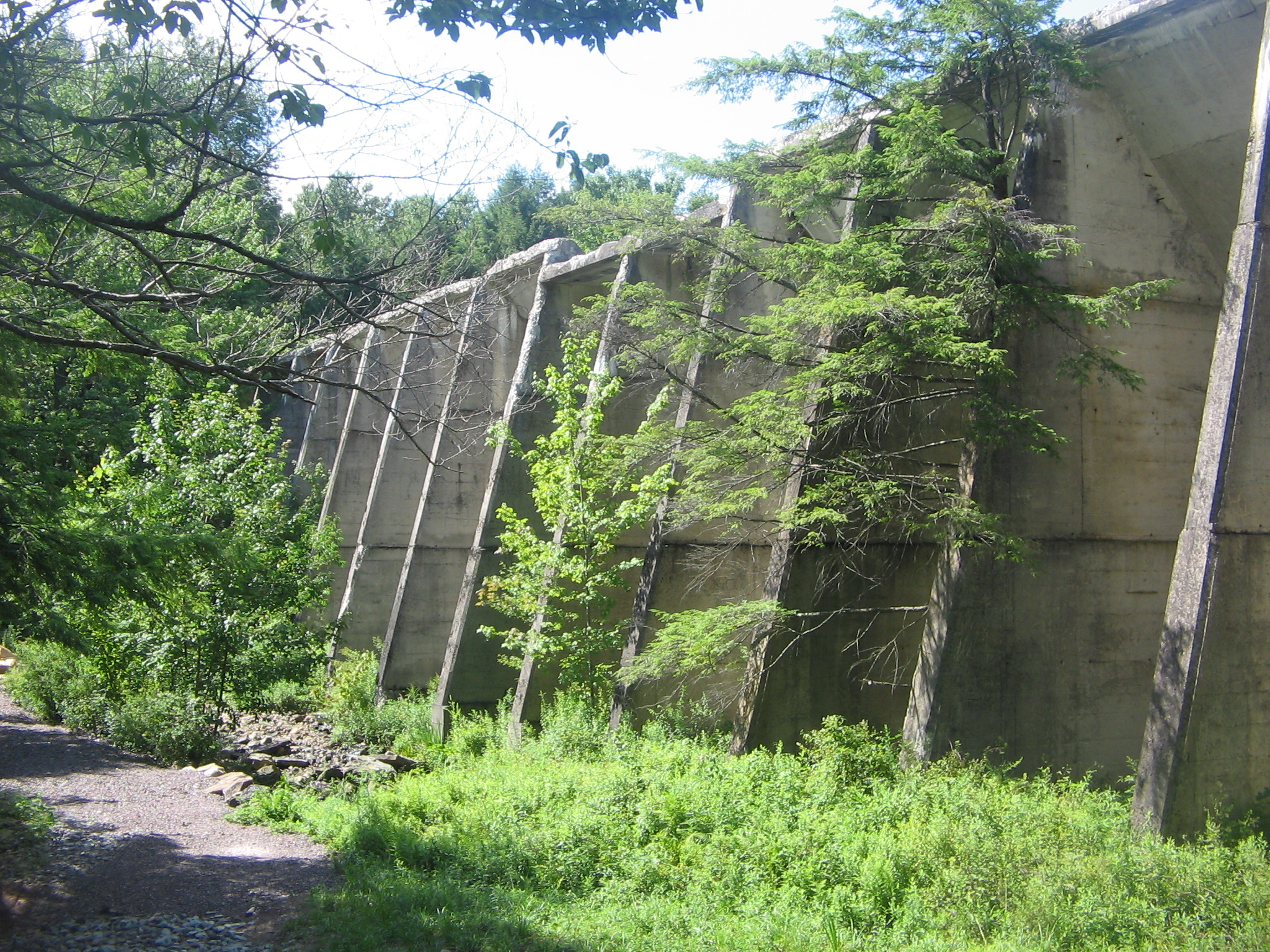 Looking northwest at the breached dam for Lake Leigh in Ricketts Glen State Park, Fairmount Township, Luzerne County, Pennsylvania, USA.